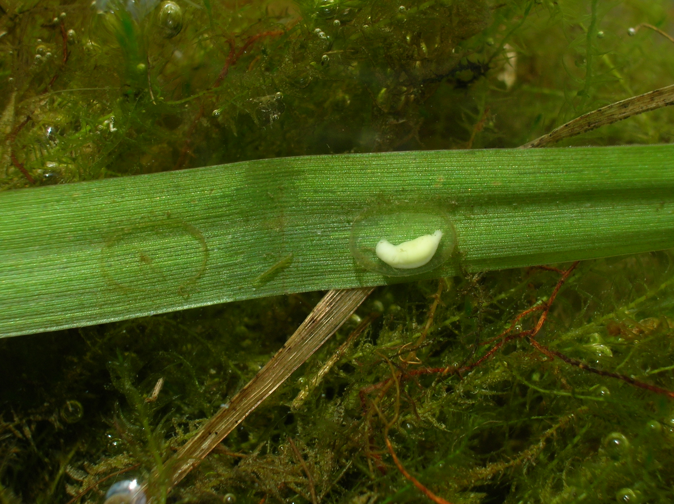 Opened leaf with egg of Triturus cristatus, the Netherlands